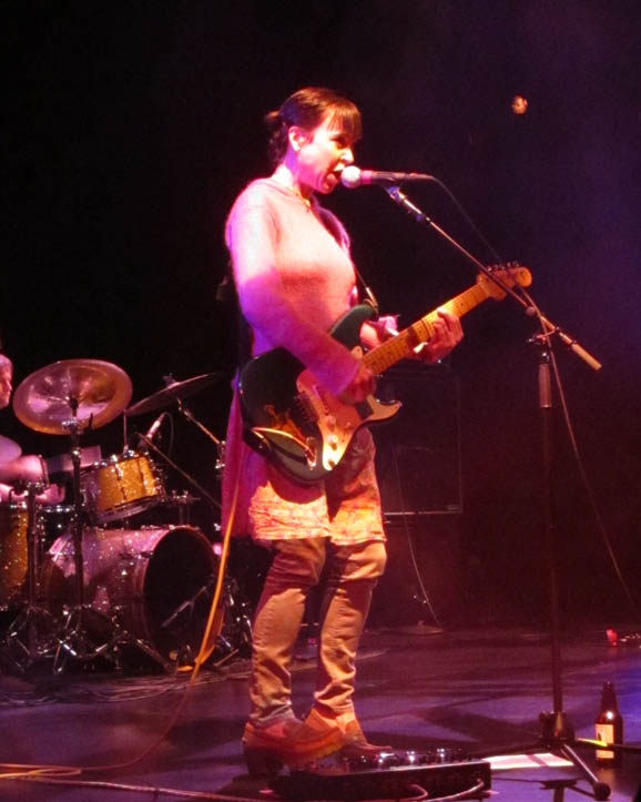 Throwing Muses performs at San Francisco's Noise Pop Festival - February 28, 2014. Pictured: Kristin Hersh, David Narcizo.